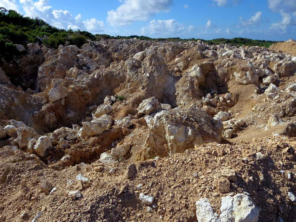 Phosphate rock mining continues at this quarry near South Point on Christmas Island, Australia.